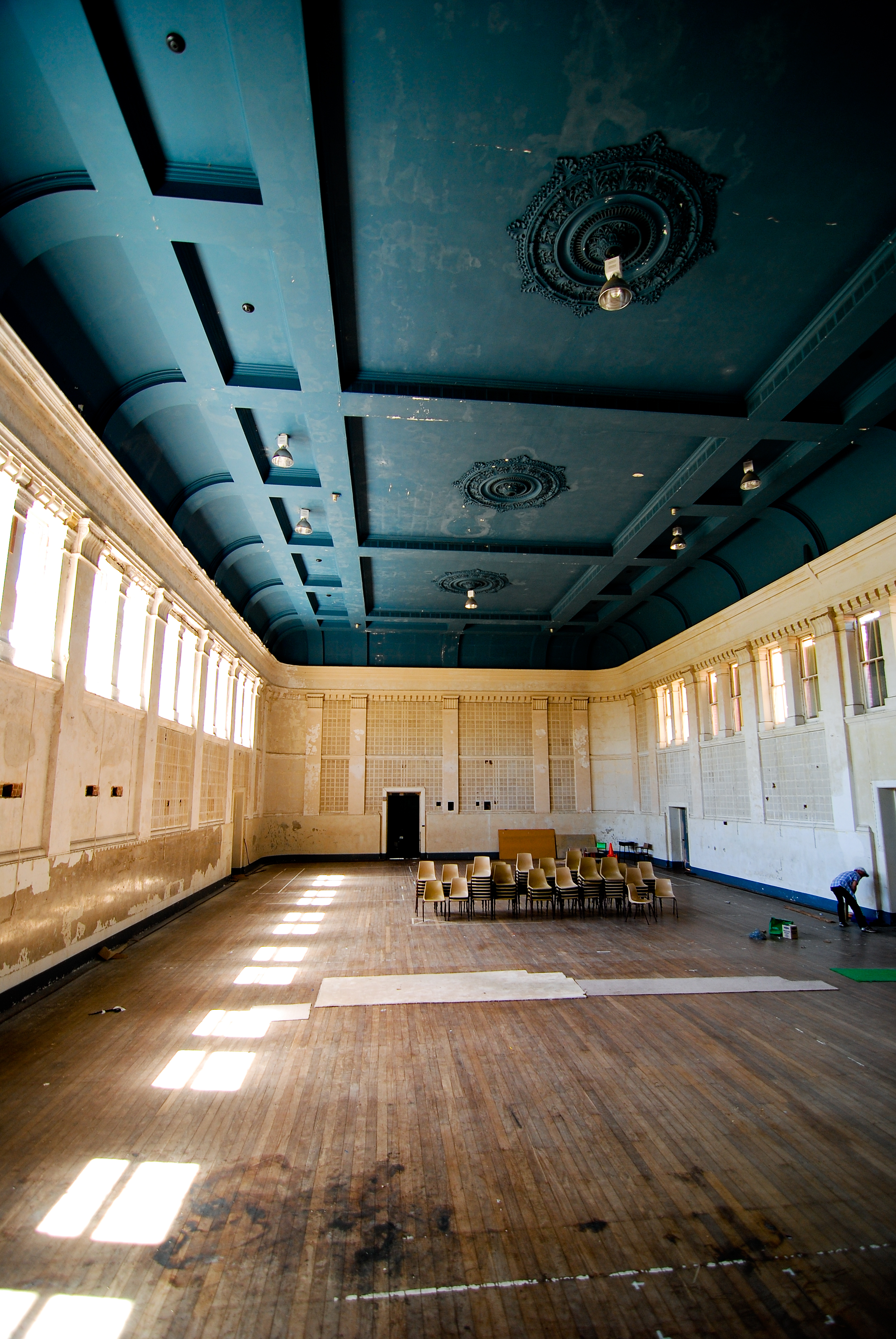 Interior of Swanbourne Hospital, built 1904, abandoned 1987. Formerly Claremont Mental Hospital. Perth, Australia.